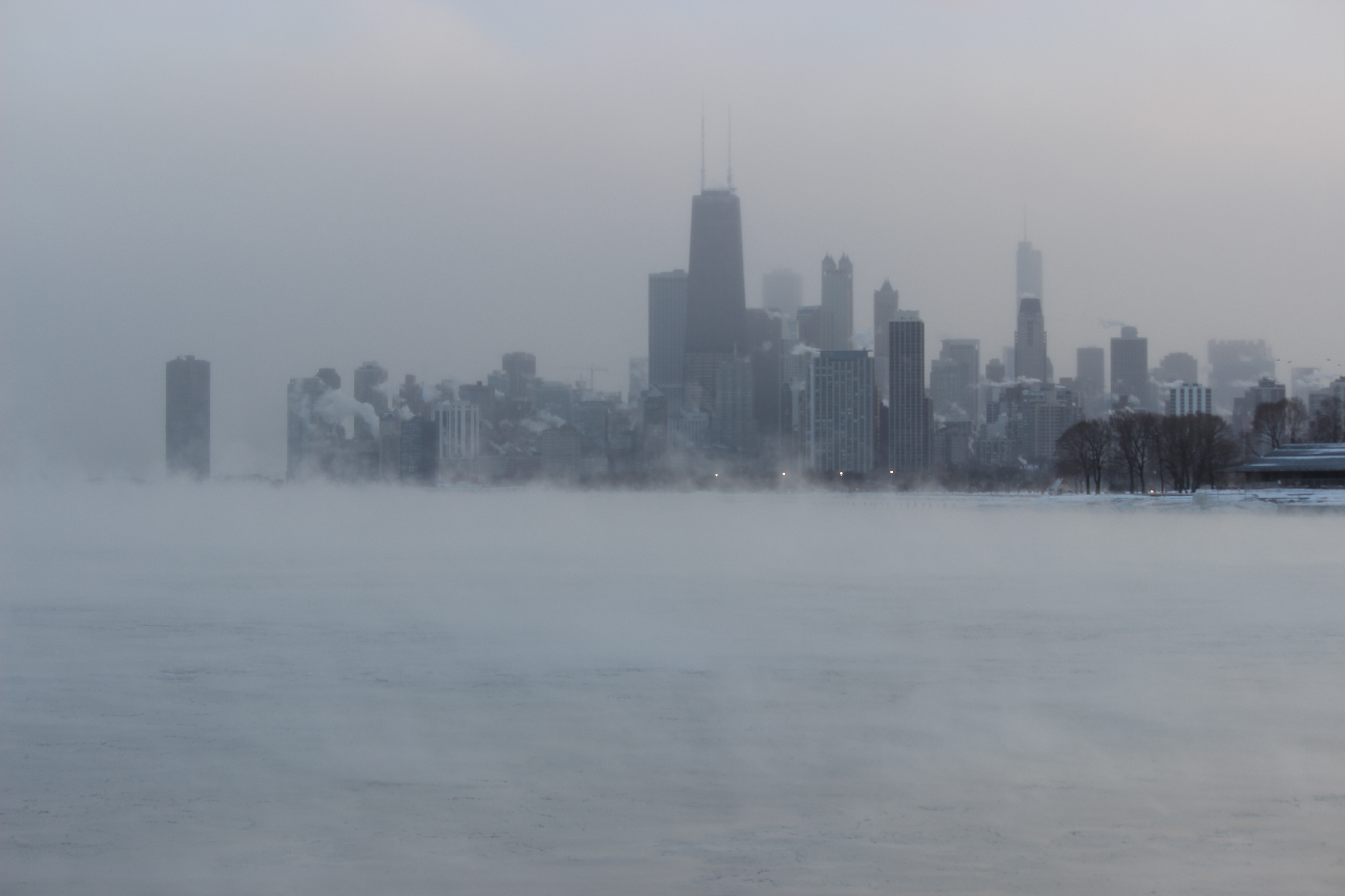 Chicago during early 2014 North American Cold Wave, Lake Michigan steaming